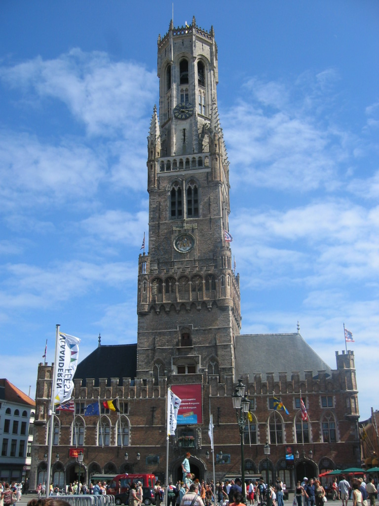 Belfry of Bruges, Belgium